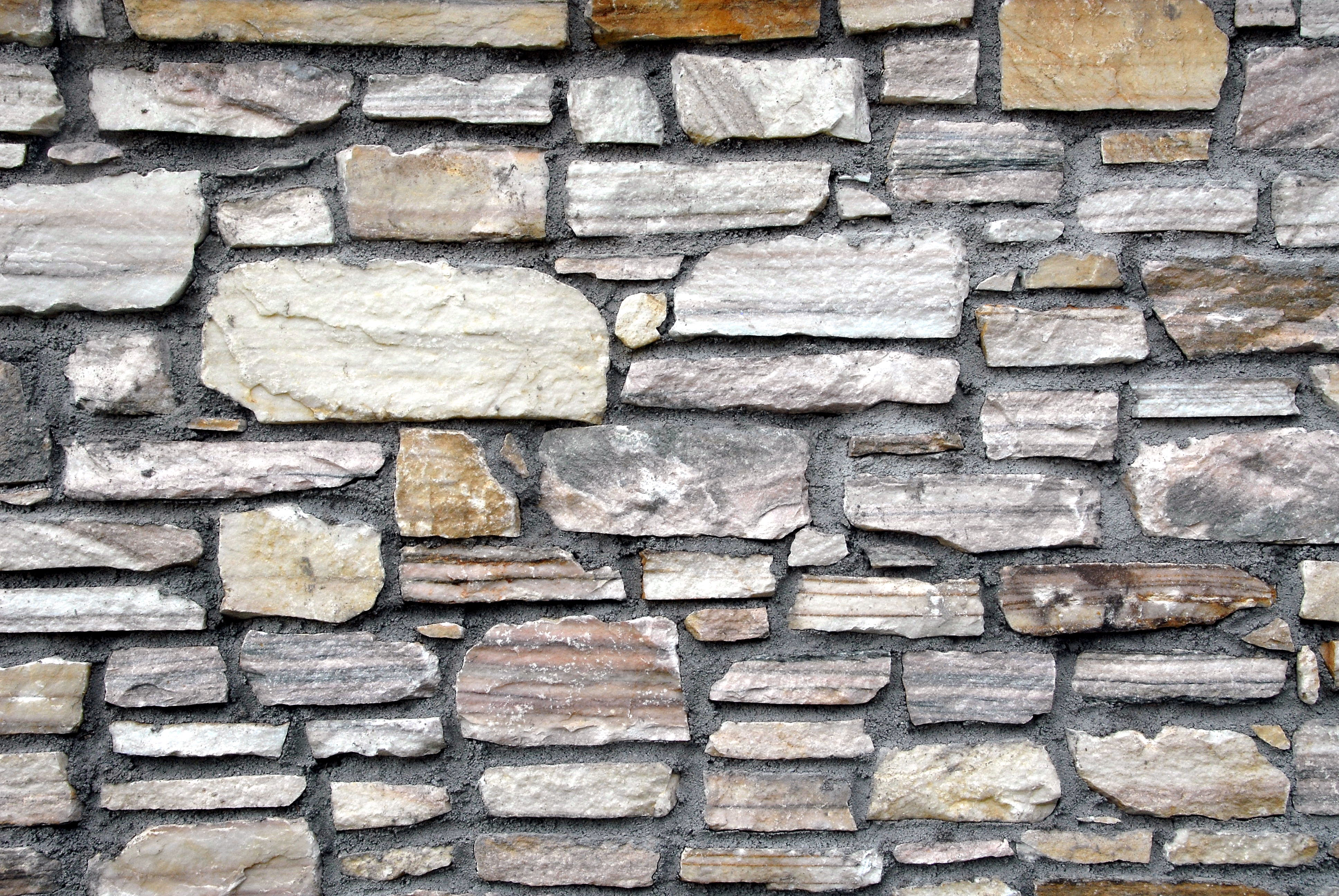 Stone wall, consisting from “Poertschach marble”, at Sekull, municipality Techelsberg am Wörther See, district Klagenfurt Land, Carinthia, Austria, EU